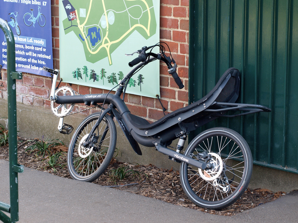 Challenge Hurricane recumbent bicycle, at London Recumbents (Dulwich Park, London)